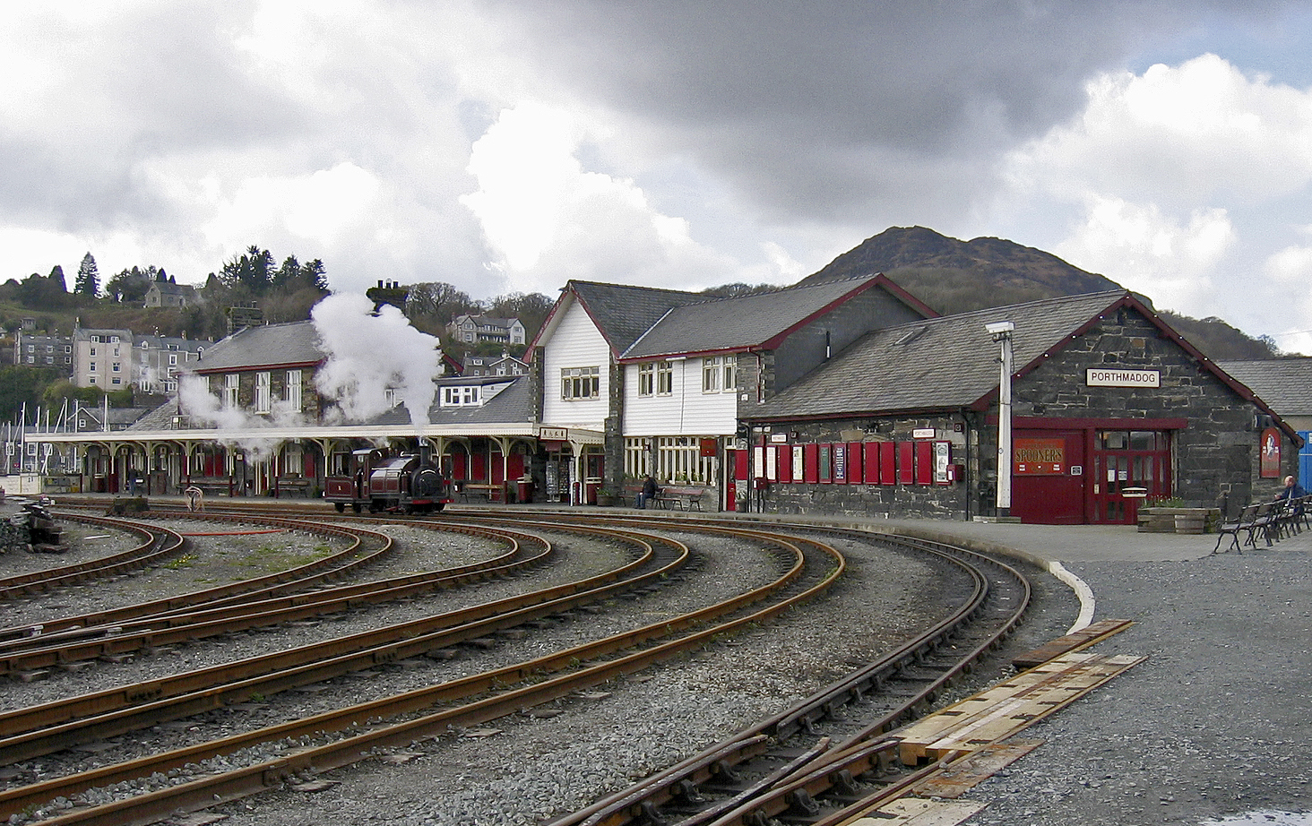 Ffestiniog Railway locomotive Palmerston at Porthmadog Harbour railway station. The start of the Porthmadog cross town link can be seen in the foreground.